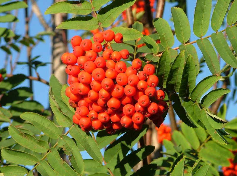 A rowan tree (European Rowan or Sorbus aucuparia) and its leaves and berries, in Töölö, Helsinki, Finland, next to the Helsinki Olympic Stadium.